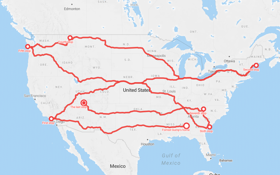 The map of the Forrest Gump (fictional) in US.